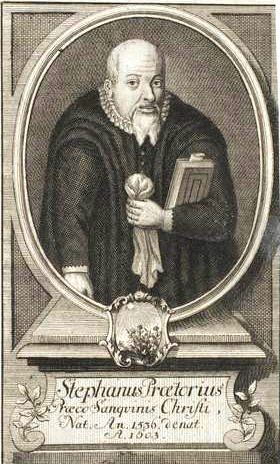 Showing Stefan Praetorius